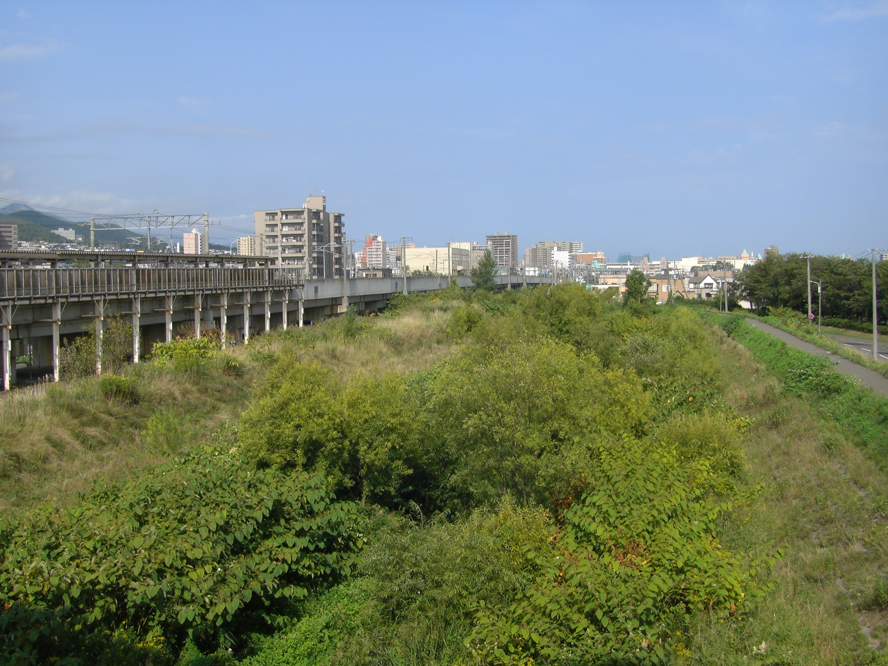 Santarubetsu River in Sapporo, Hokkaido, Japan.